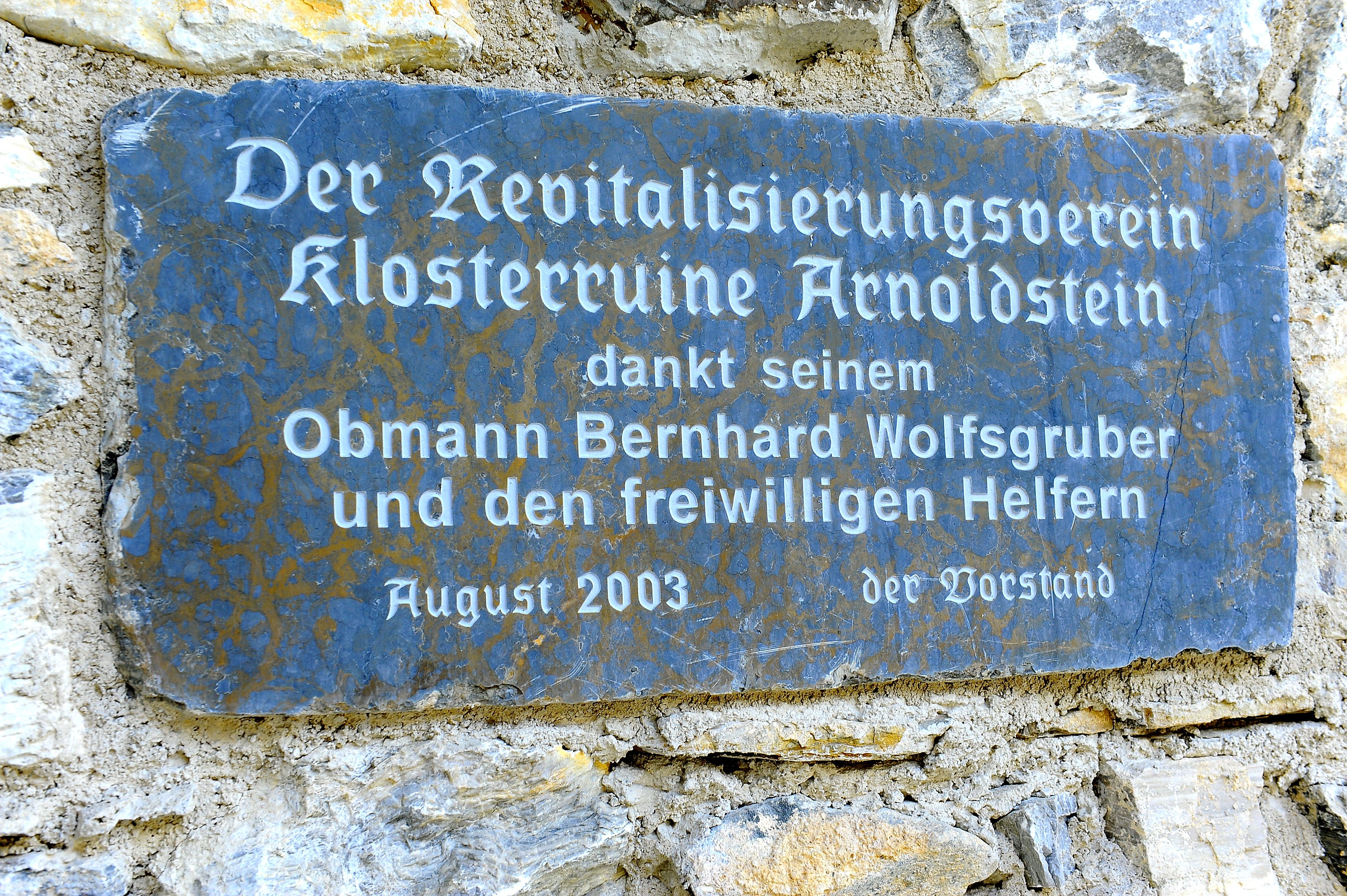 Plaque as acknowledgement of gratitude for the “Revitalization Association of the monastery ruin" and it`s chairman Bernhard Wolfsgruber inside the friary ruin in Arnoldstein, municipality Arnoldstein, district Villach Land, Carinthia / Austria / EU